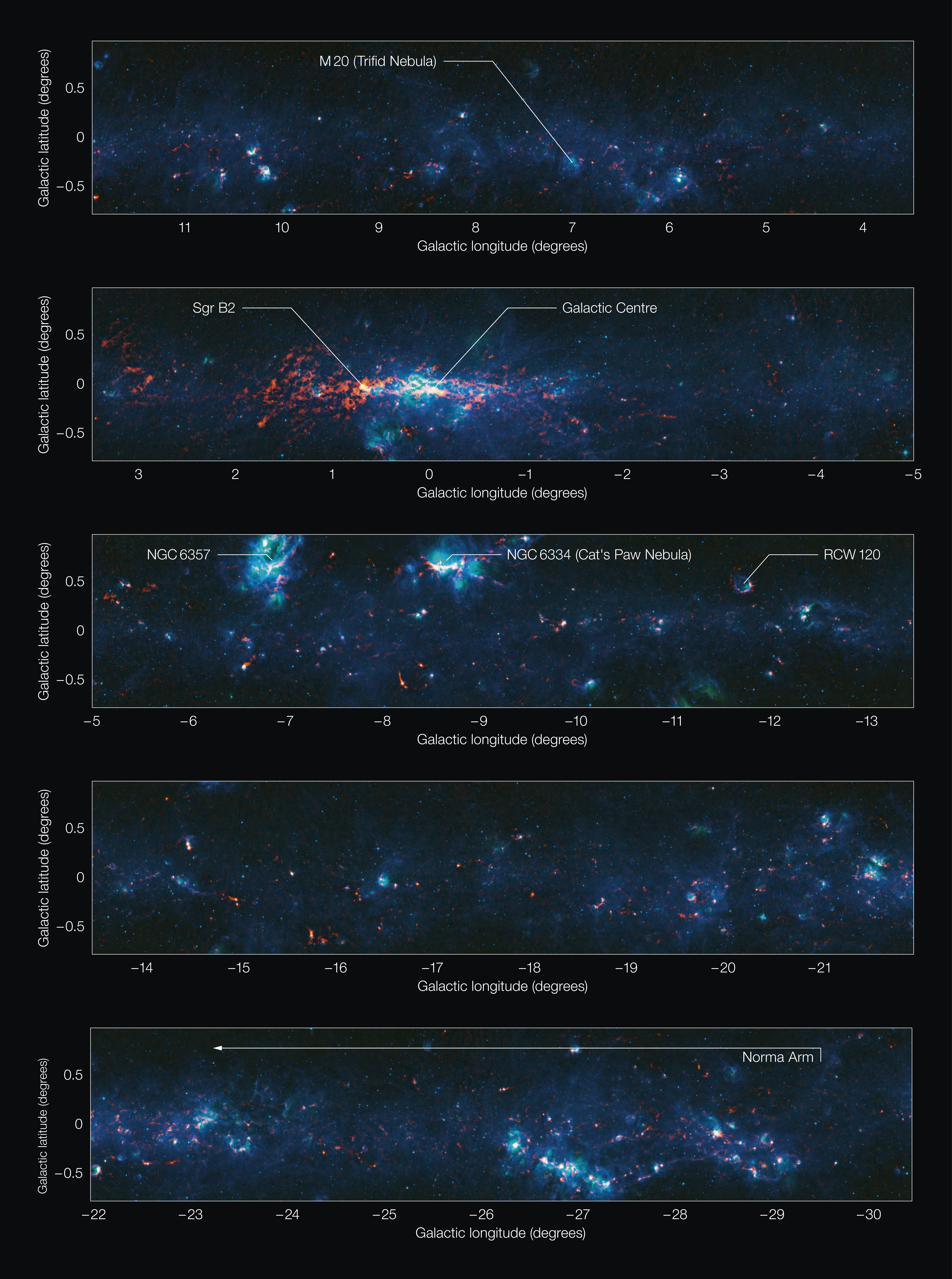 Colour-composite annotated image of part of the Galactic Plane seen by the ATLASGAL survey, divided into sections. In this image, the ATLASGAL submillimetre-wavelength data are shown in red, overlaid on a view of the region in infrared light, from the Midcourse Space Experiment (MSX) in green and blue. The total size of the image is approximately 42 degrees by 1.75 degrees. Some of the most prominent features visible in the image are (from left to right, top to bottom): Messier 20 (the Trifid Nebula): A nebula containing an open cluster of stars as well as a stellar nursery. The name “Trifid” refers to the way that dense dust appears to divide it into three lobes at visible wavelengths. Sagittarius B2 (Sgr B2): One of the largest clouds of molecular gas in the Milky Way, this dense region lies close to the Galactic Centre and is rich in many different interstellar molecules. Galactic Centre: The centre of the Milky Way, home to a supermassive black hole more than four million times the mass of our Sun. It is about 25 000 light-years from Earth. NGC 6357: A diffuse nebula containing the open cluster Pismis 24, home to several very massive stars. NGC 6334: An emission nebula also known as the “Cat’s Paw Nebula”. RCW 120: A region where an expanding bubble of ionised gas about ten light-years across is causing the surrounding material to collapse into dense clumps that are the birthplaces of new stars. The Norma Arm: The region of somewhat brighter emission extending over about 10 degrees on the right-hand side of the image corresponds to the position of the Norma Arm, one of the spiral arms of the Milky Way.